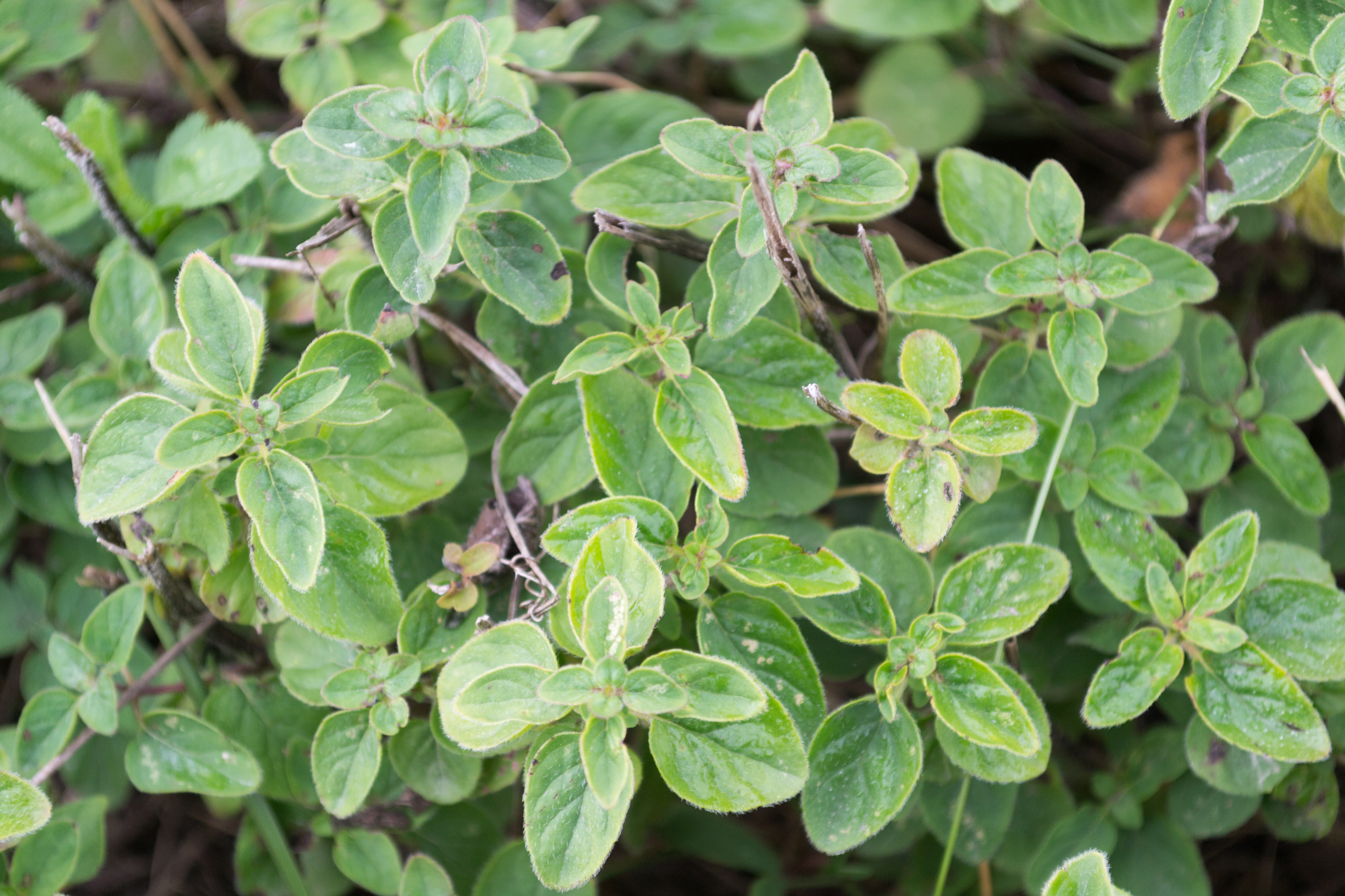 Pennyroyal close-up